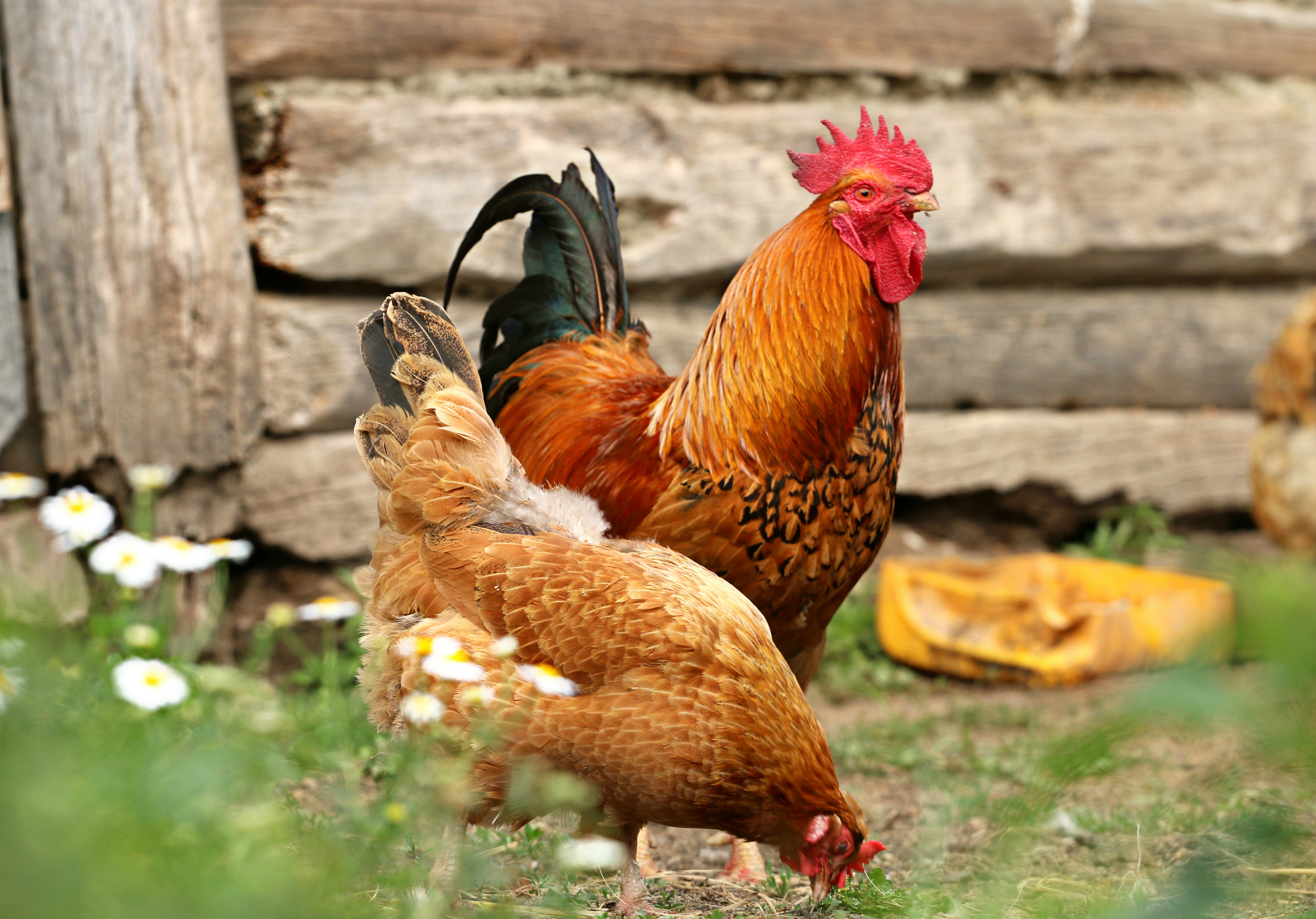 Rooster and hen.